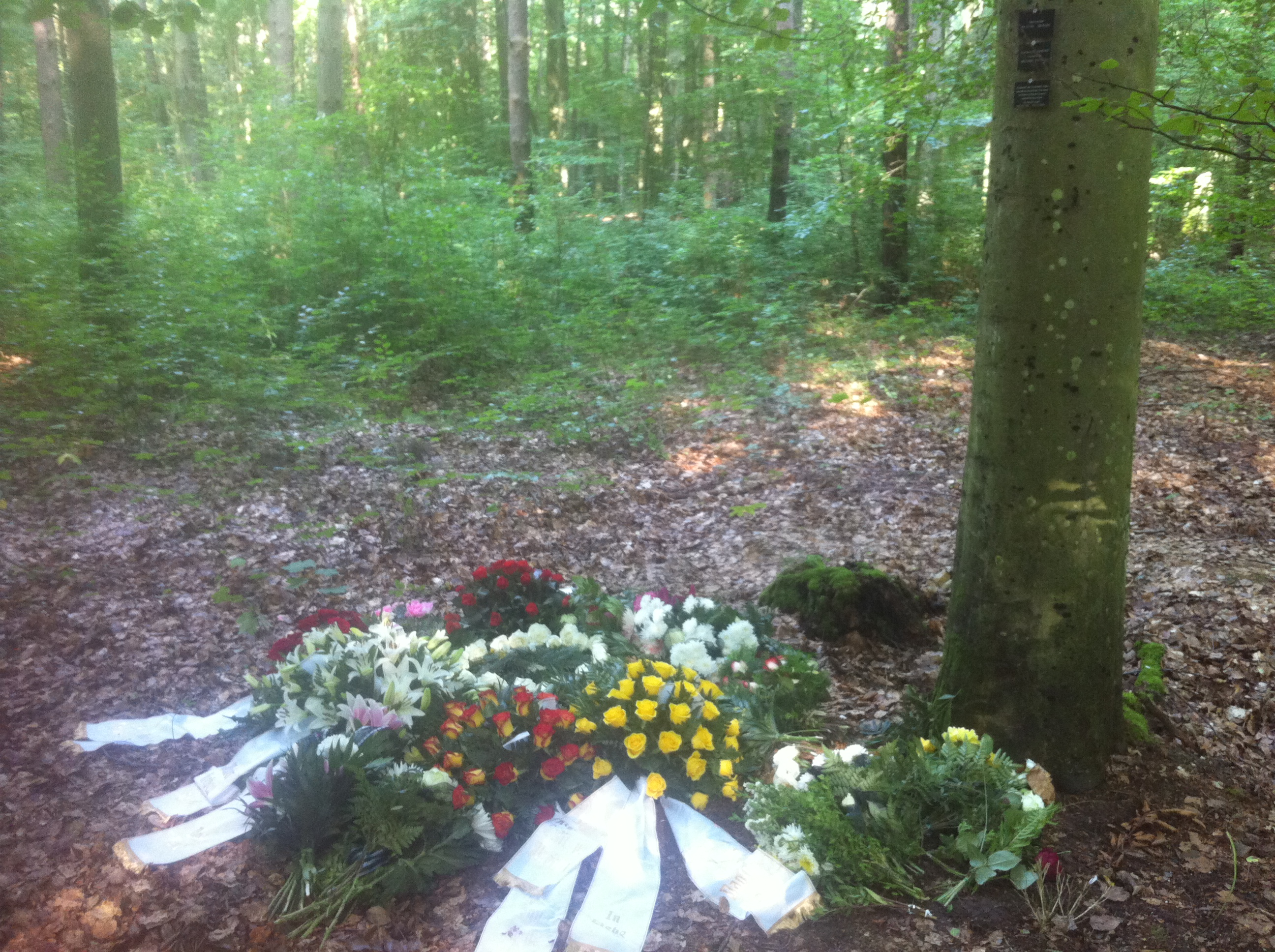 Urn grave in German forest